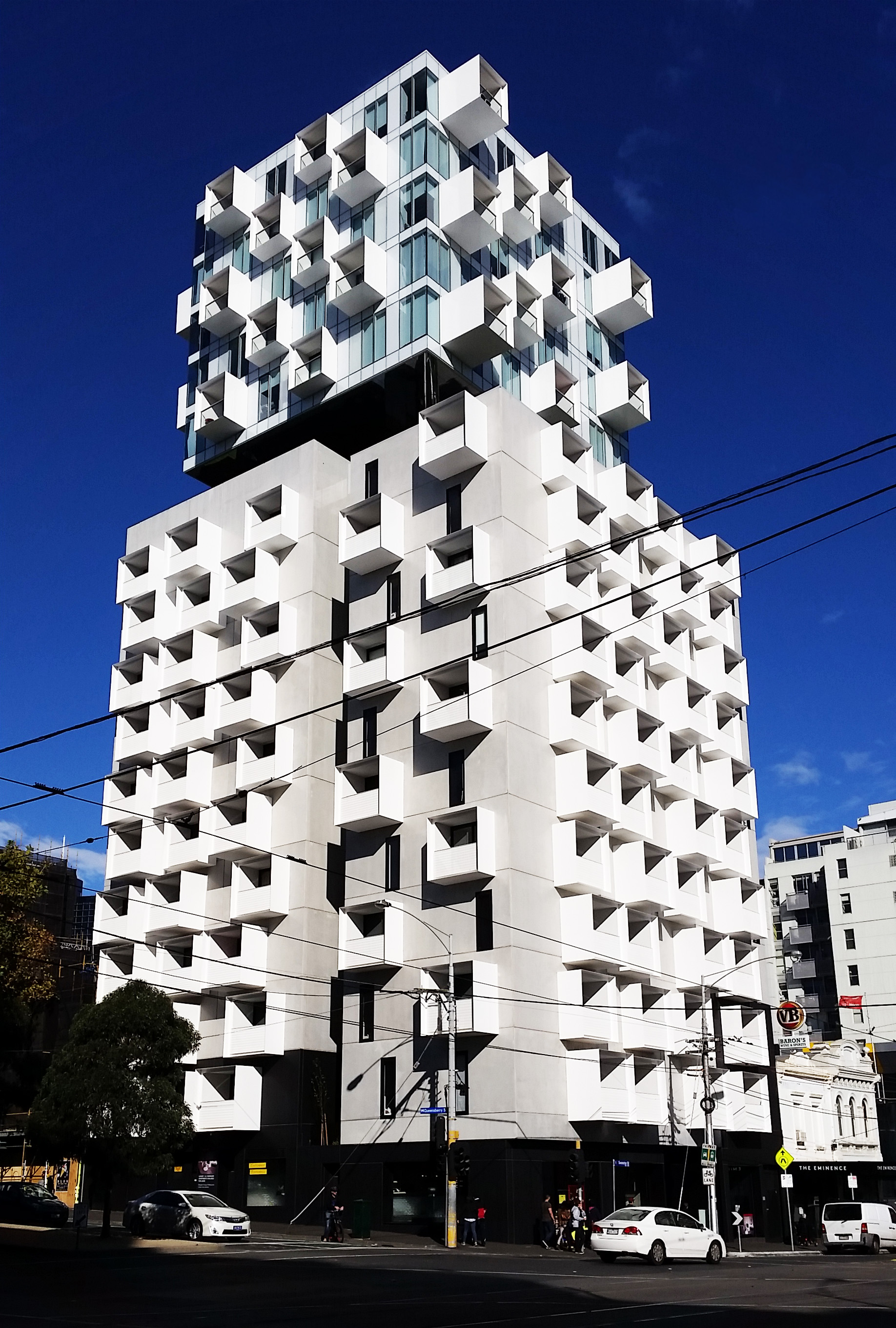 Outside shot from Swanston St